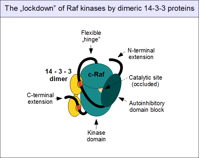 Artist's impression of the autoinhibited state of c-Raf, reinforced by a 14-3-3 dimer